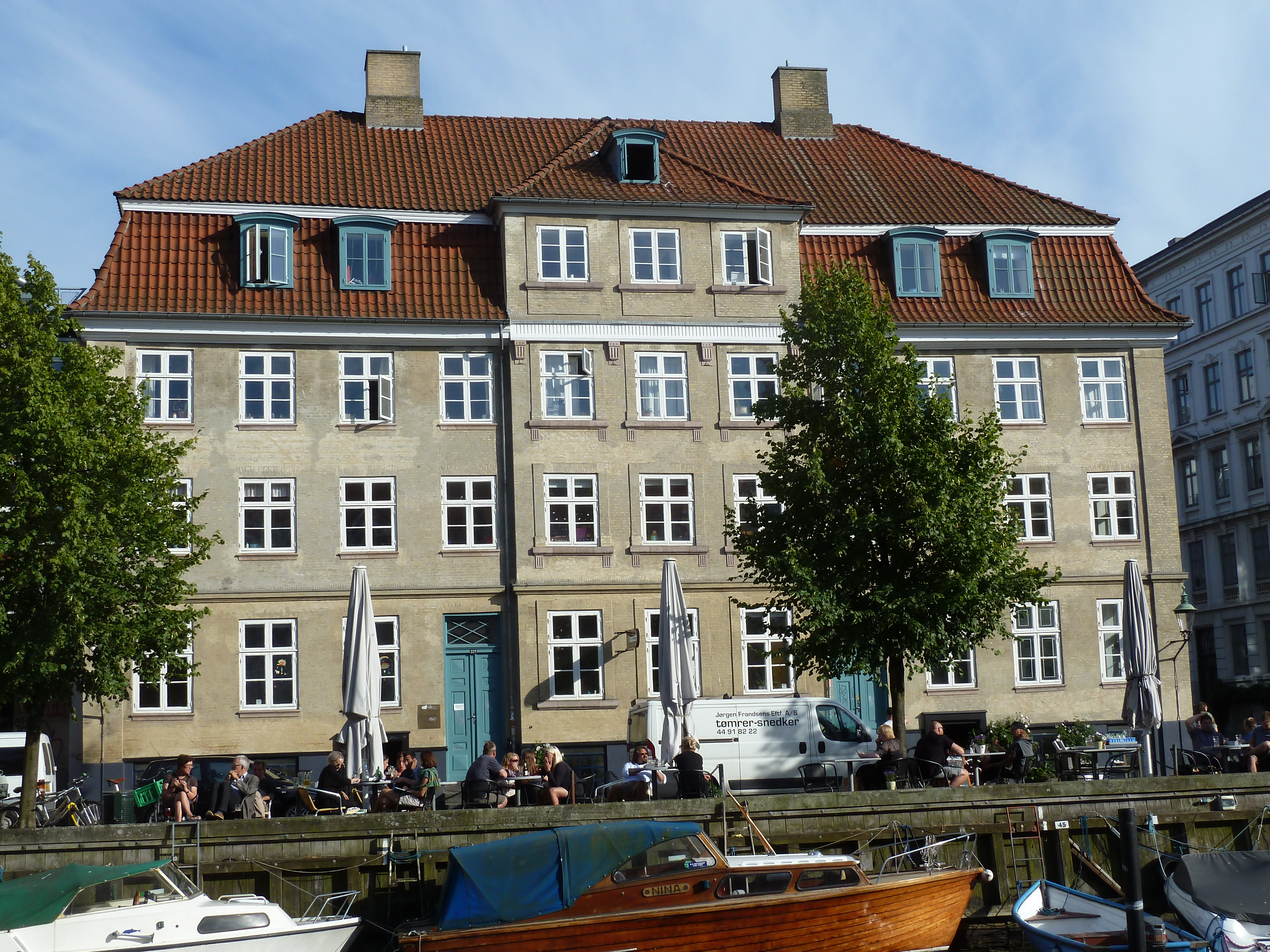 The building Steinfass Gård on 32 Overgaden Oven Vandet in the Christianshavn neighbourhood of Copenhagen, Denmark